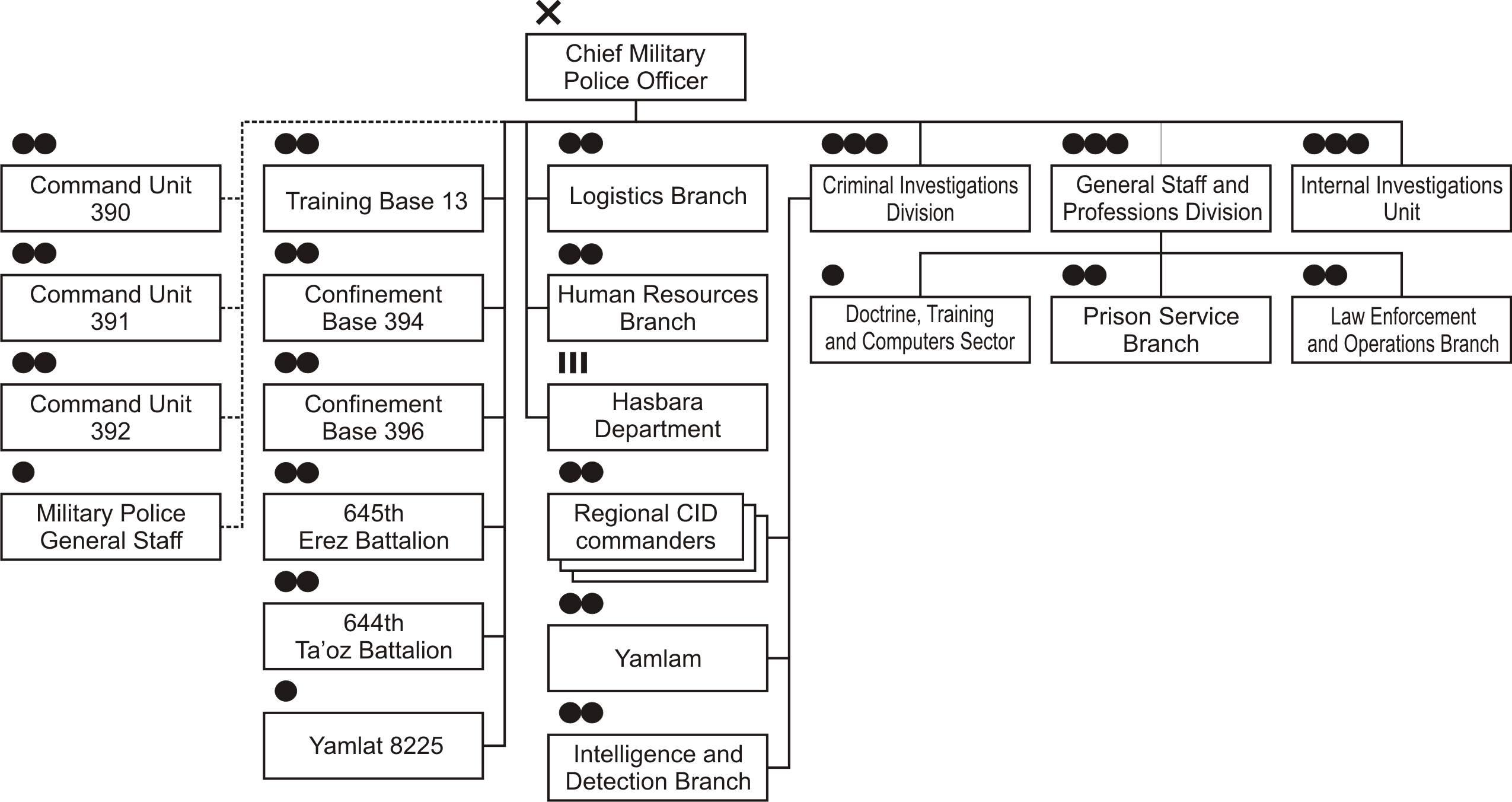 Structure of the Military Police Corps Headquarters, including subordinate units. This isn't the full structure, only the main sectors. Each sector also has sub-sectors, but these have not been included.